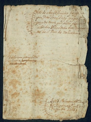 Stablishment 1666-Pla de la Parera-Tagamanent (Catalonia)